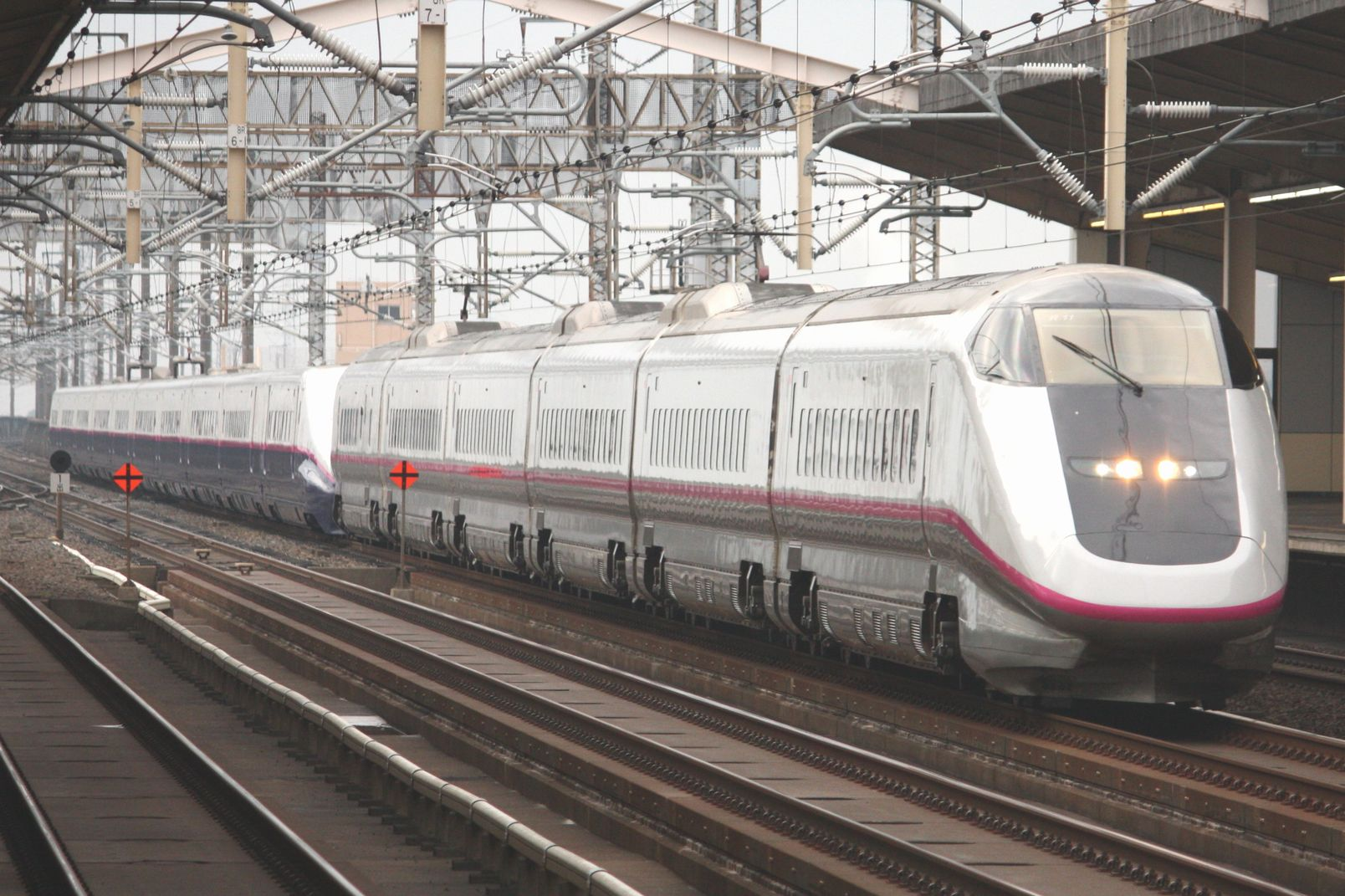 JR East E3 series shinkansen passing through Oyama Station on a Komachi service